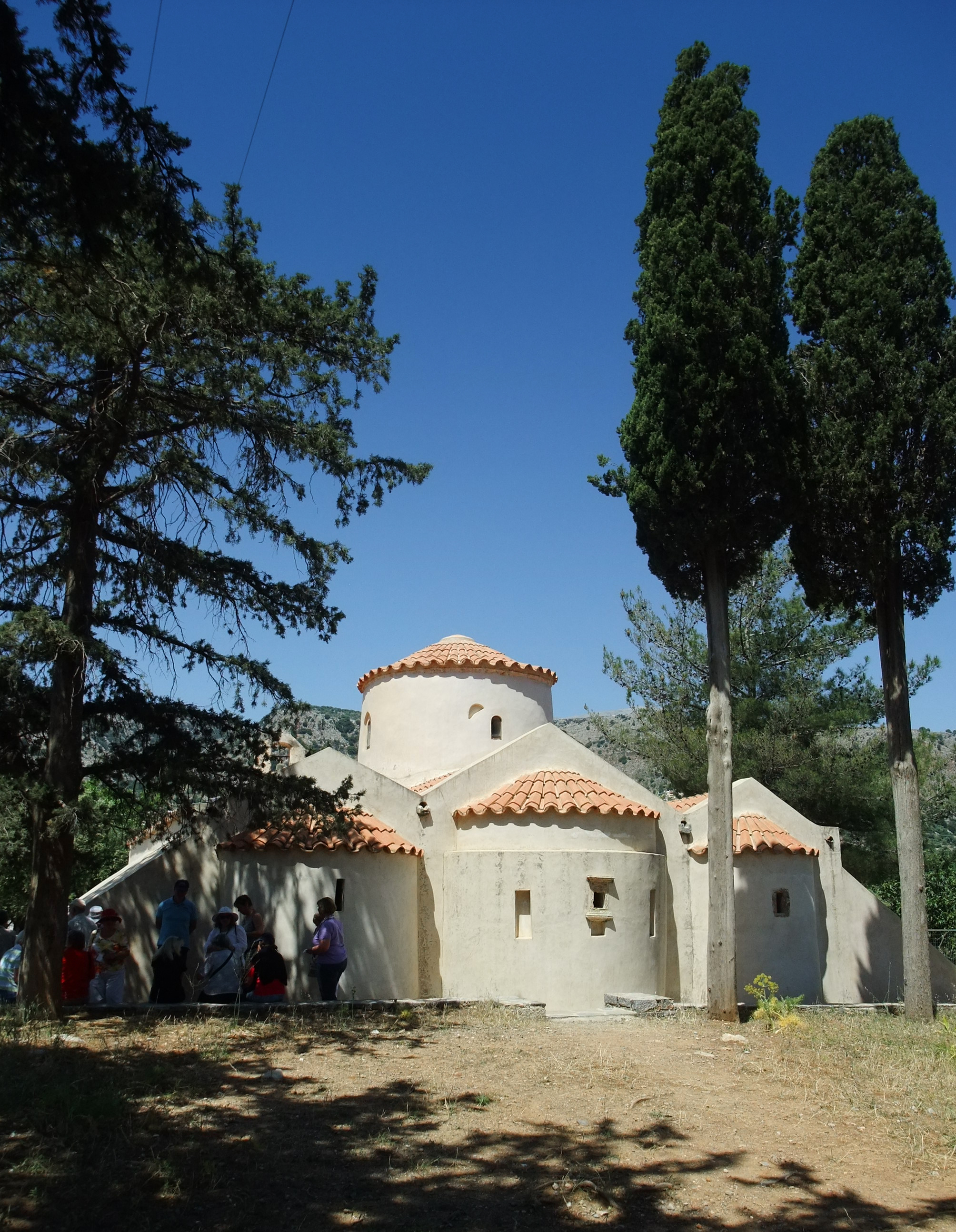 Panagia Kera, church of Kritsa, Crete, Greece